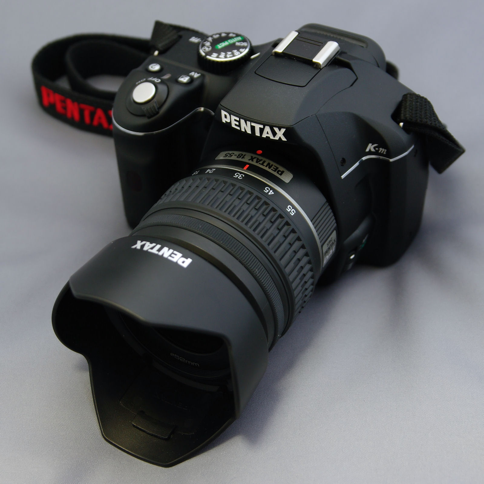 PENTAX K-m Body